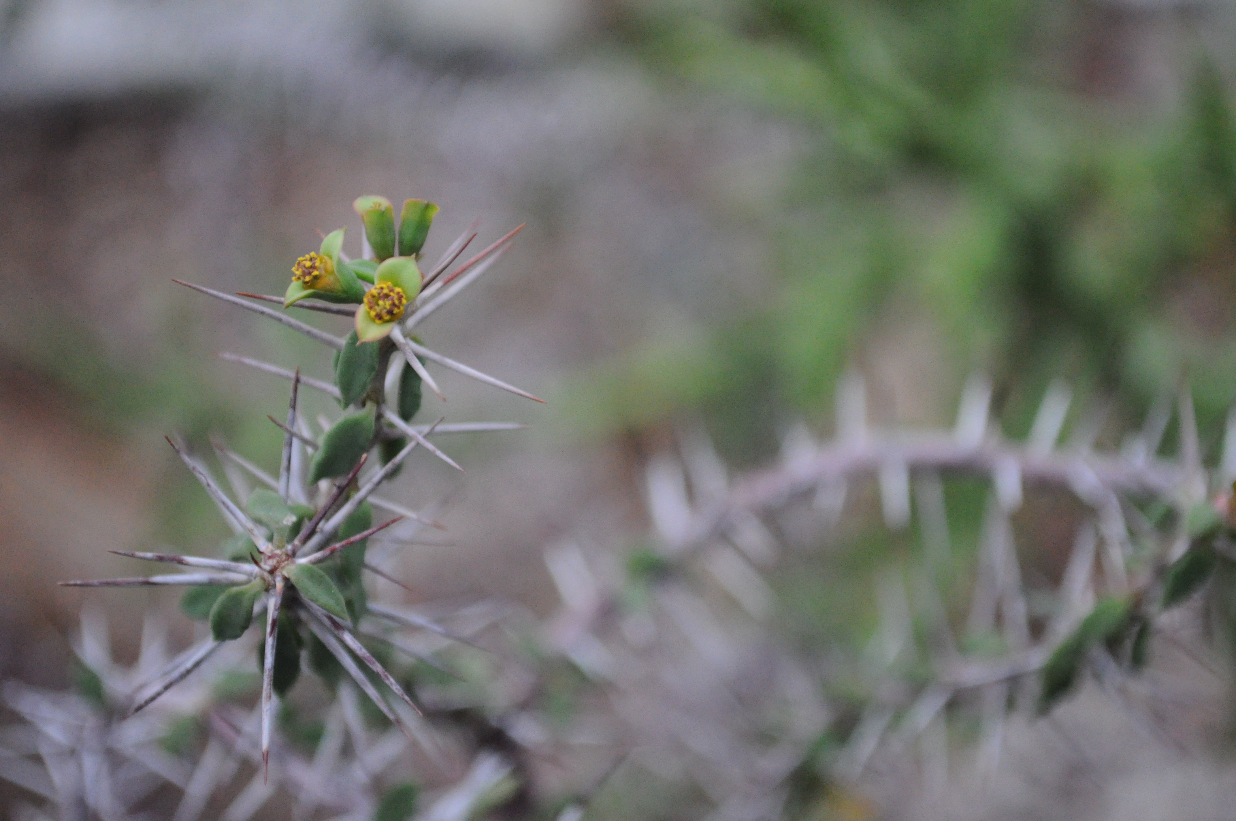 Euphorbia guillemietii c-2768. Madagascar. Volunteer Park Conservatory, Volunteer Park, Capitol Hill, Seattle, Washington, USA.